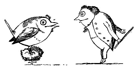 Edward_Lear_A_Book_of_Nonsense_80.jpg